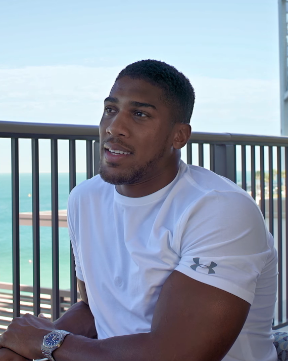 Anthony Joshua in 2017